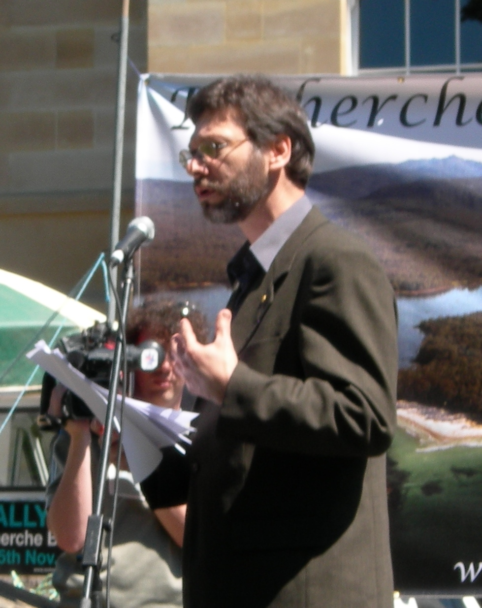 Edward Duyker, Australian historian and conservationist